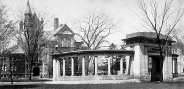 Oberlin College 1909 (from LOC). From left to right: Peters Hall, Oberlin Memorial Arch, Category:Images of Ohio